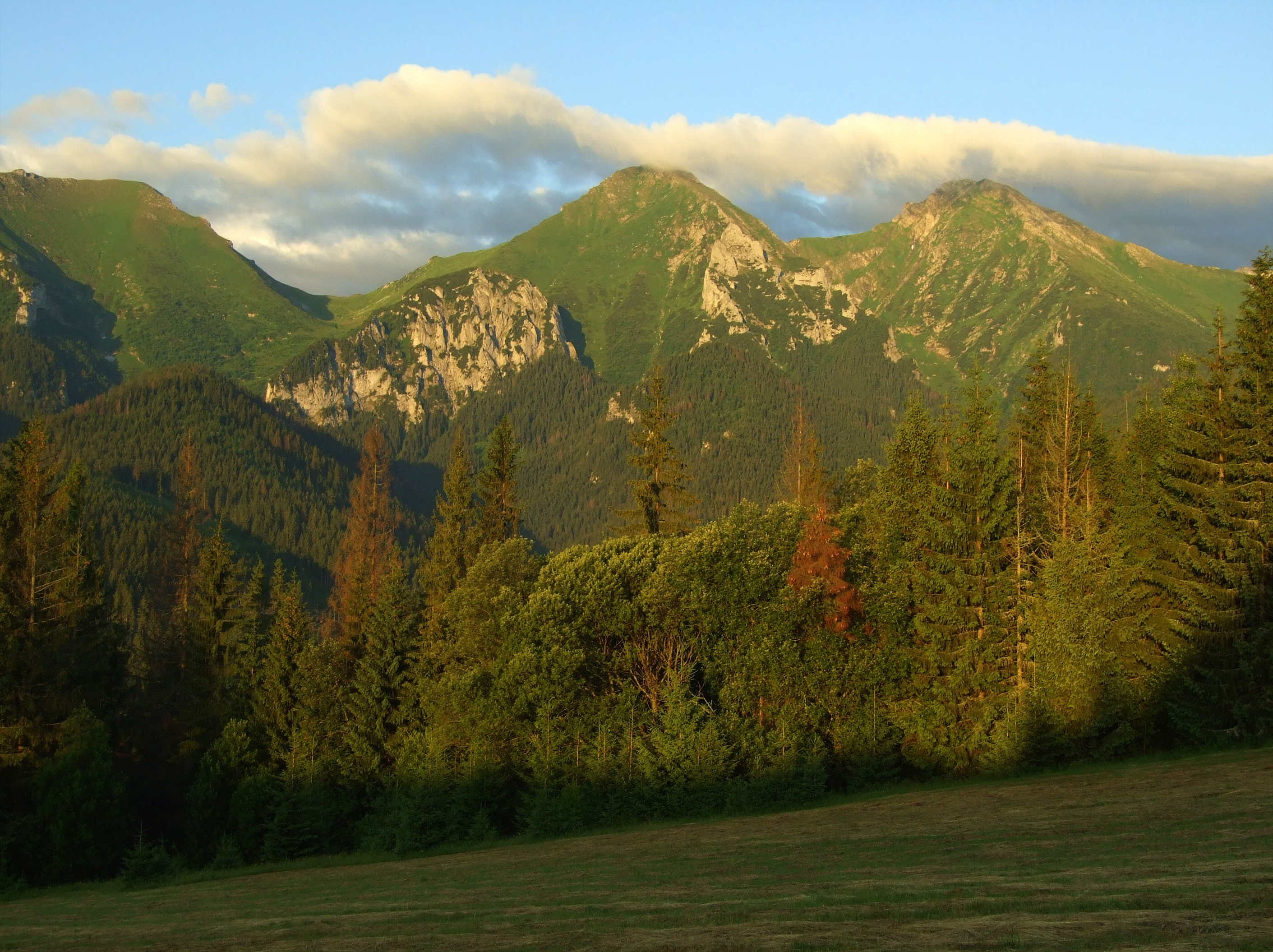 Belianske Tatra Mountains, Slovakia.